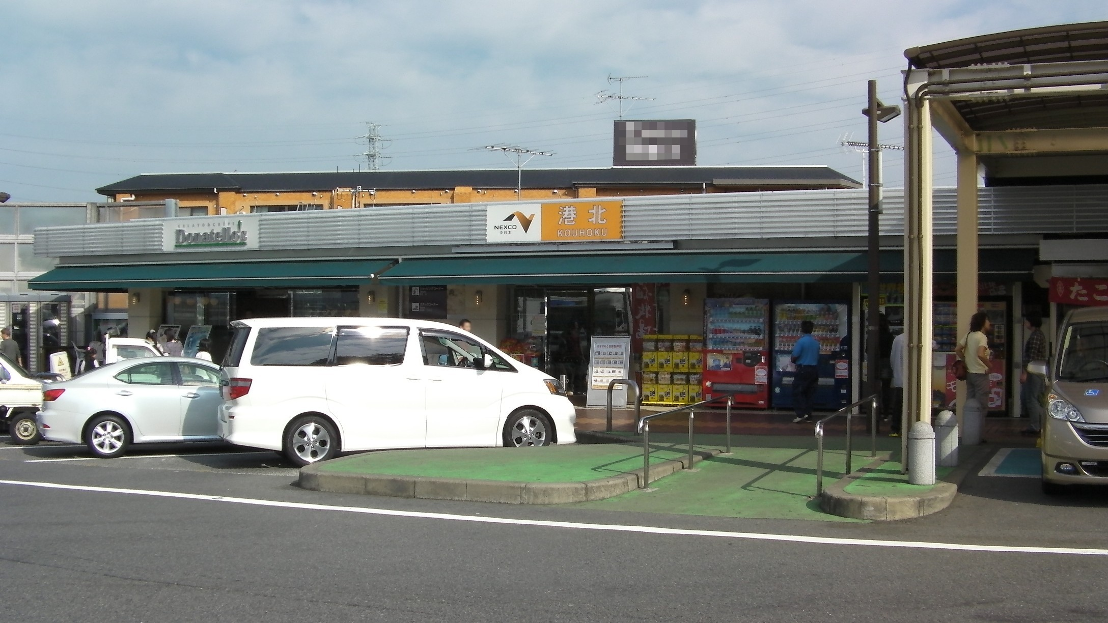 Kohoku Parking Area on the Tomei Expressway inbound line for Tokyo